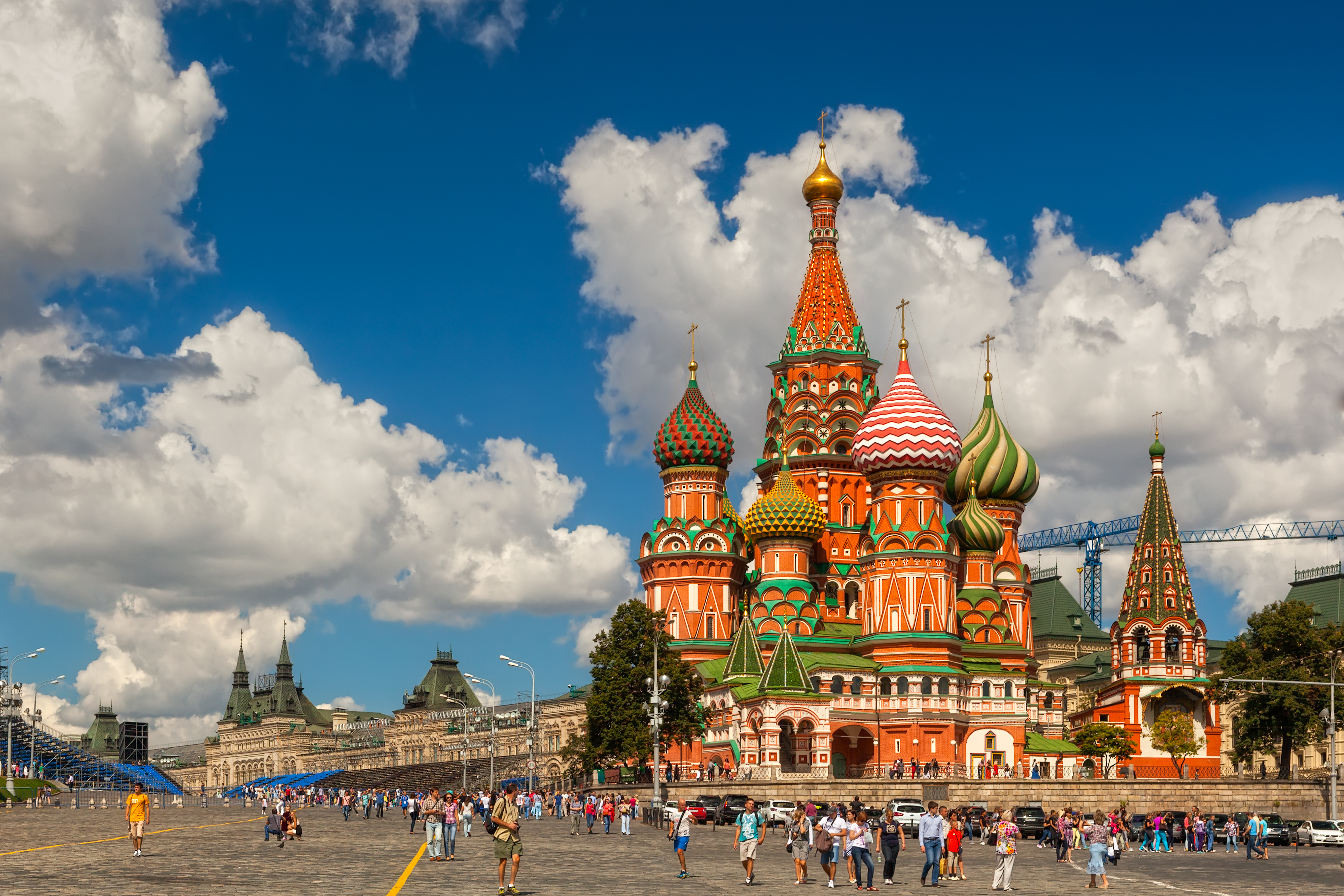 View to the St. Basil Cathedral from Vasilyevski spusk, Moscow, Russian Federation